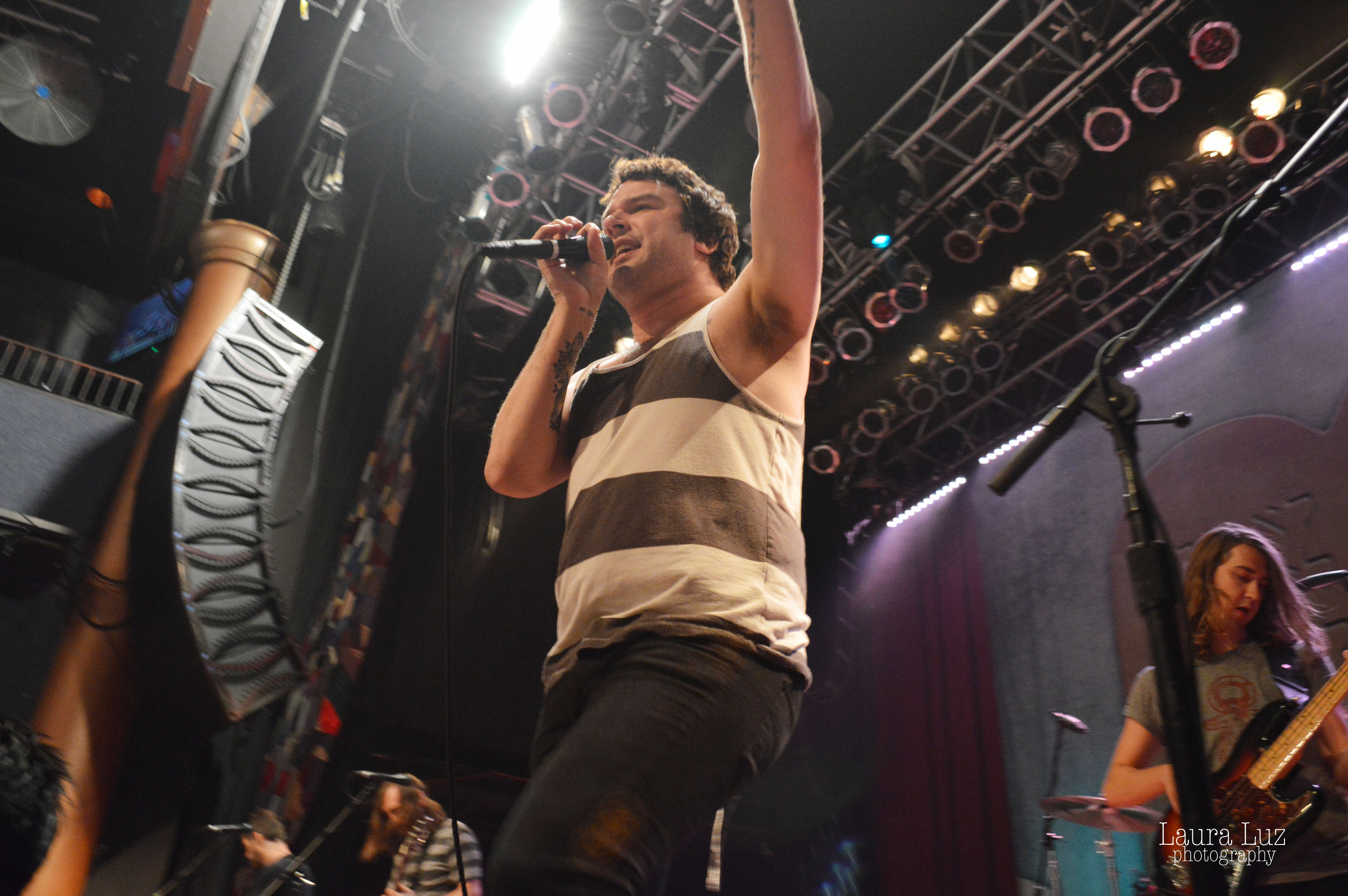 Say Anything performing live at the House of Blues in San Diego, CA on the "Hebrews Tour" July 26, 2014